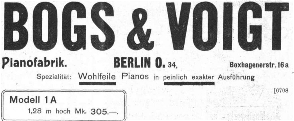 Bogs und Voigt Piano Berlin 1906